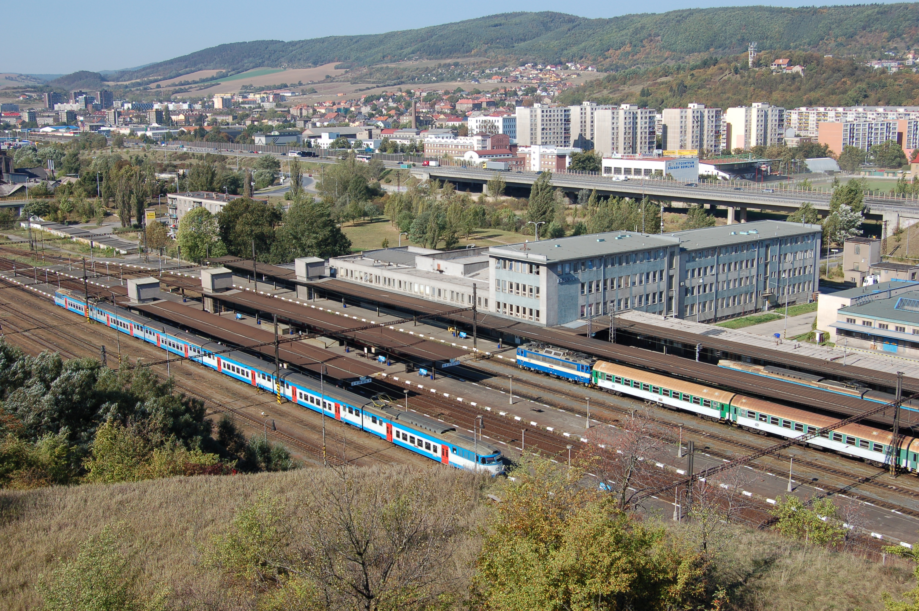 Railway station in Beroun in the center Bohemia